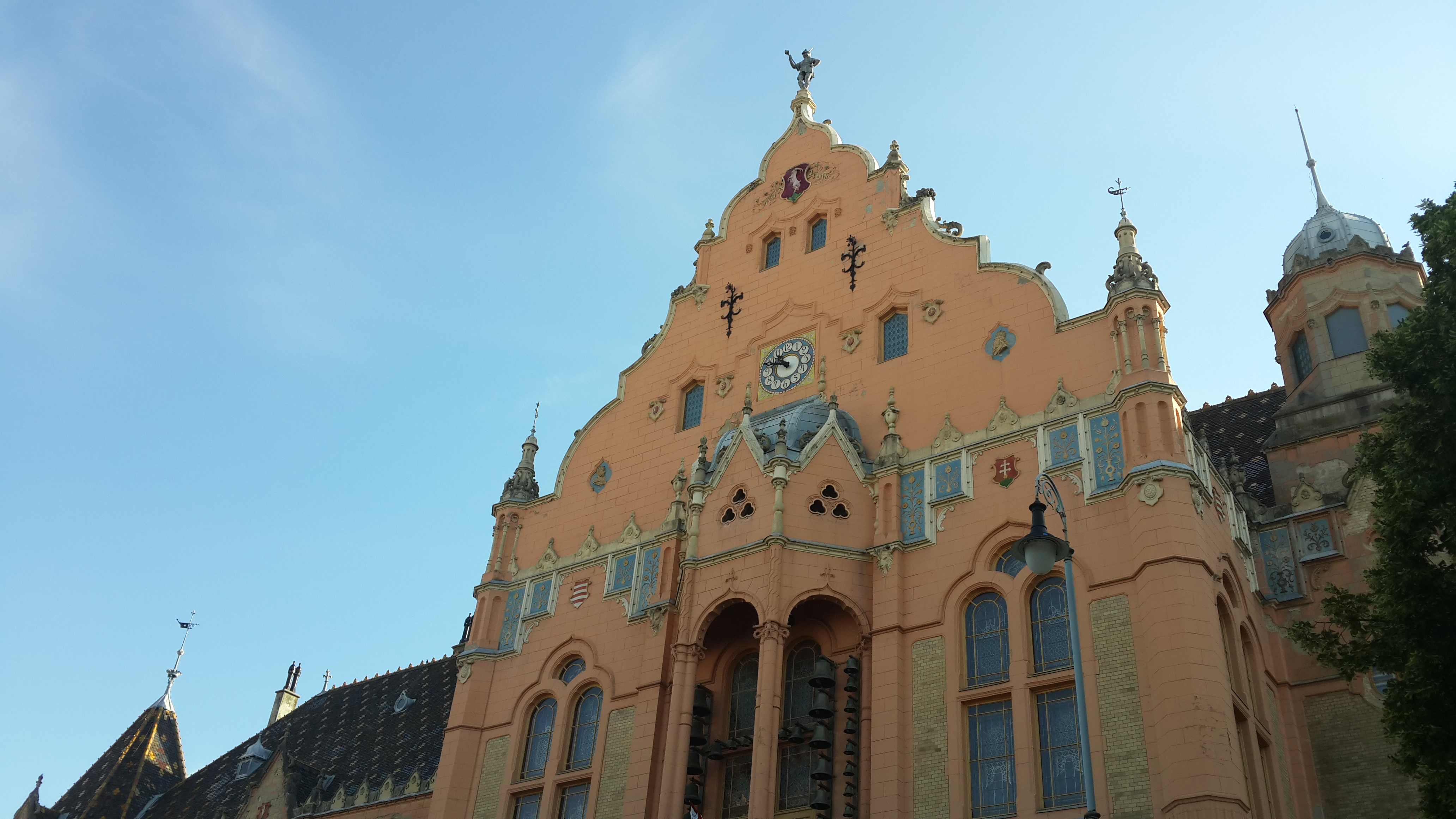 Kishkunshag